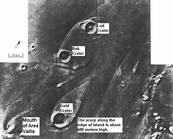 Teardrop shaped islands, as seen by Viking 1. Location is 21 N and 31 W.